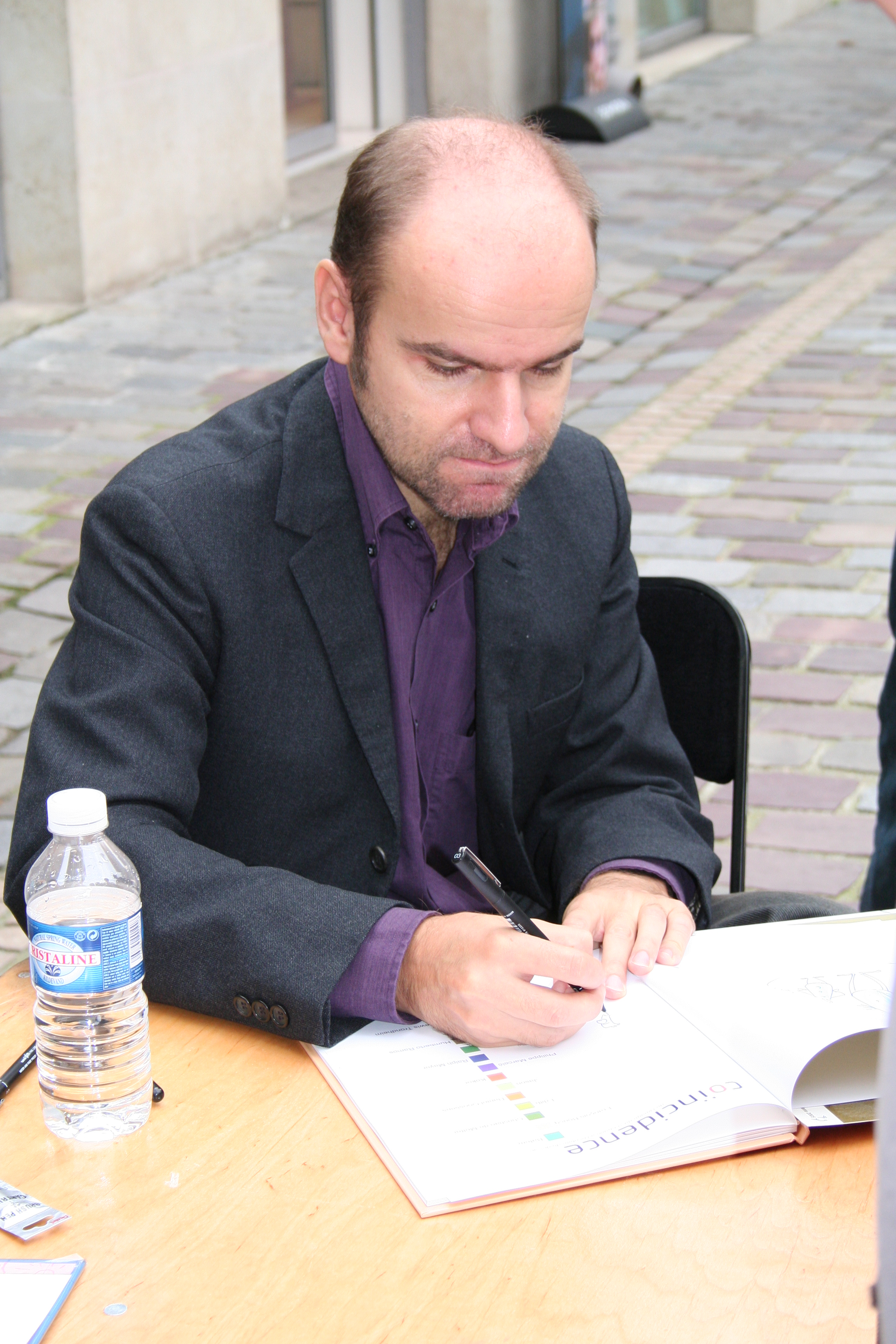 Autograph session with Lewis Trondheim at Delcourt festival 2006 (Paris, France).